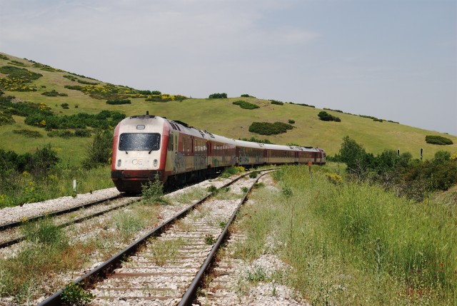 GREECE: AEG DMU-5 of OSE class 520 with IC71 service enters Kallipefki station.